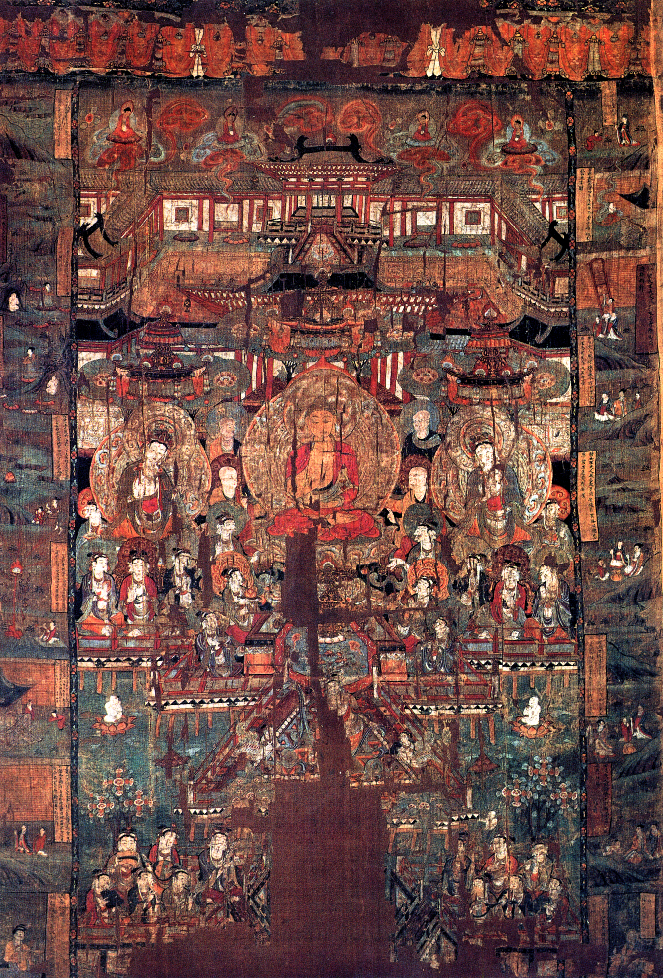 Baoen Sutra Paradise, color on silk, 177.6 x 121 cm. The image was discovered at the Mogao Caves near Dun Huang in the "1000 Buddha cave". Shakyamuni is seated in the center of the image. The left and right sides show seen of Prince Siddhartha as described in the Baoen Sutra. Located at the British Museum Department of Asia.